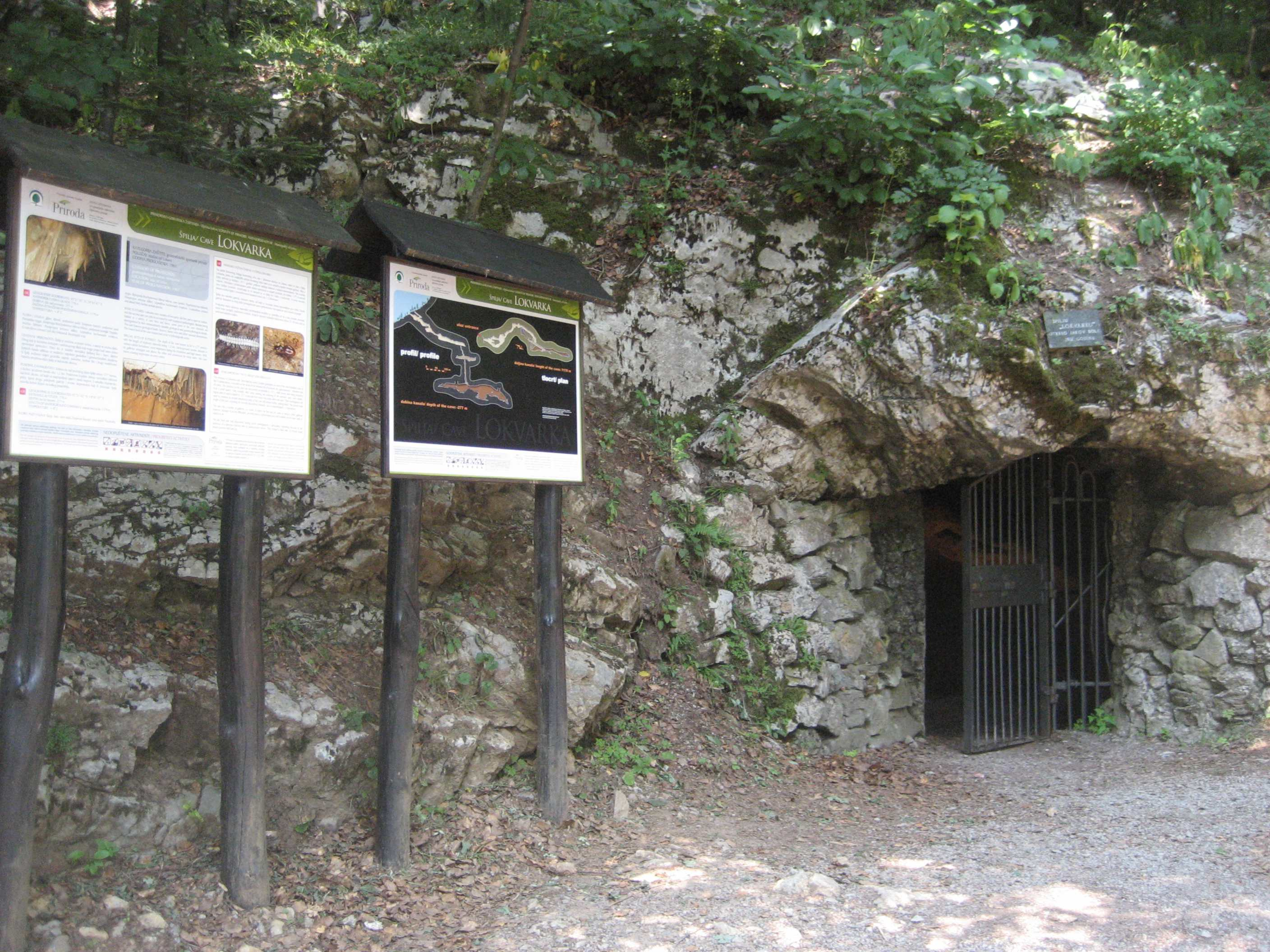 Cave Lokvarka, Croatia